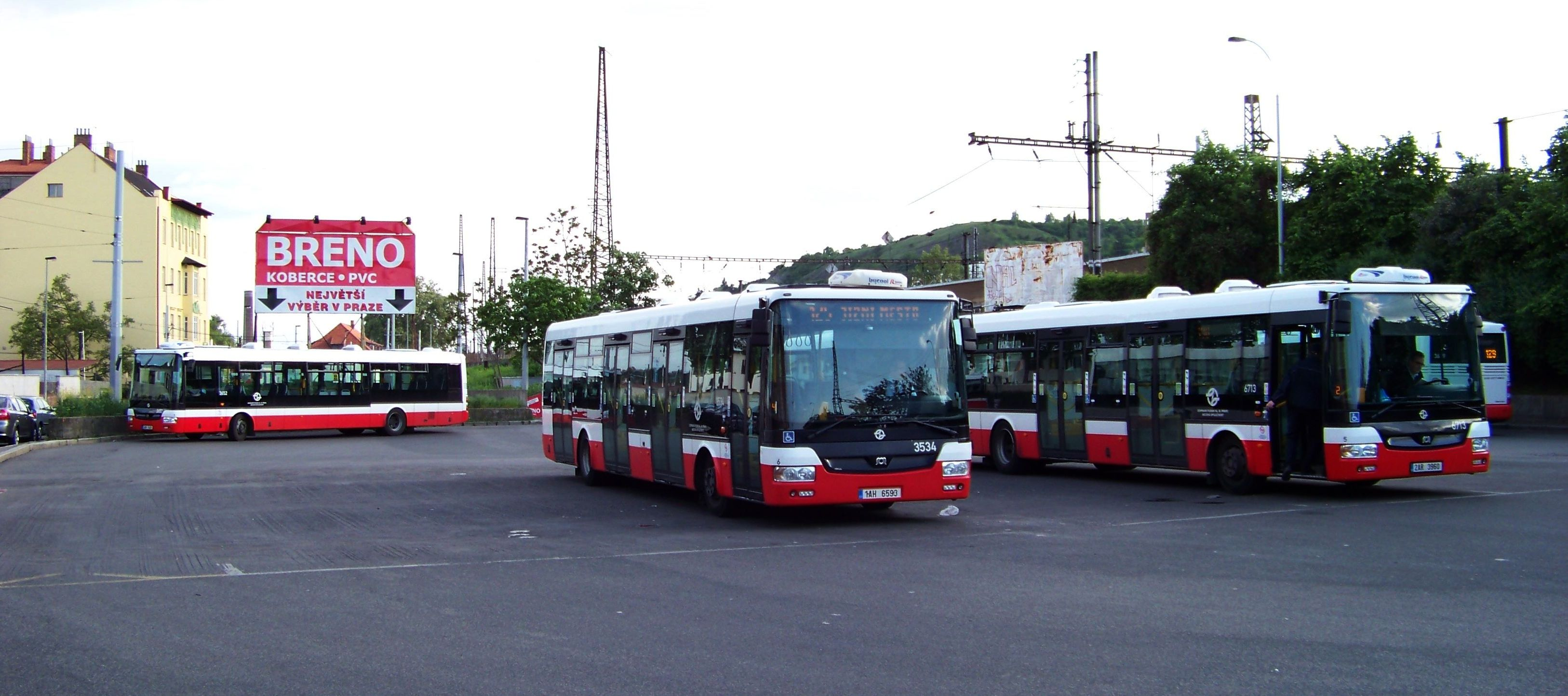 Prague-Smíchov. Bus terminal "Smíchovské nádraží", buses.